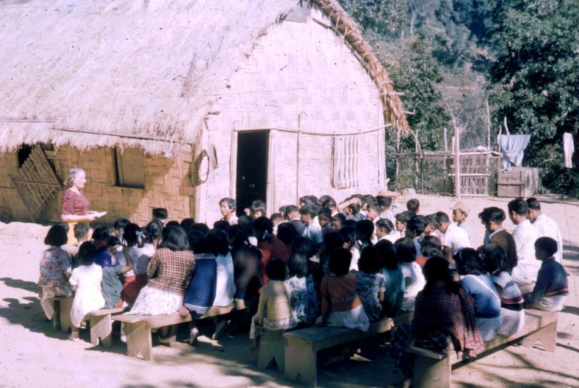 Lowry Helen teaching outdoor